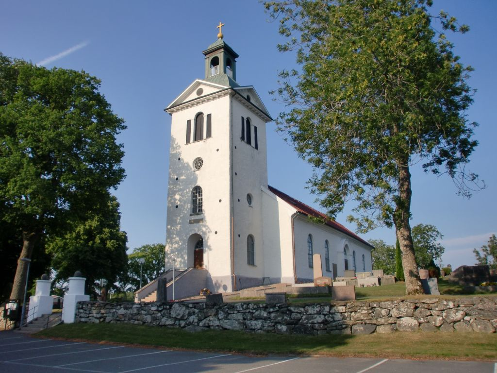 Church of Starrkärr north of Gothenburg, Sweden. View from west.